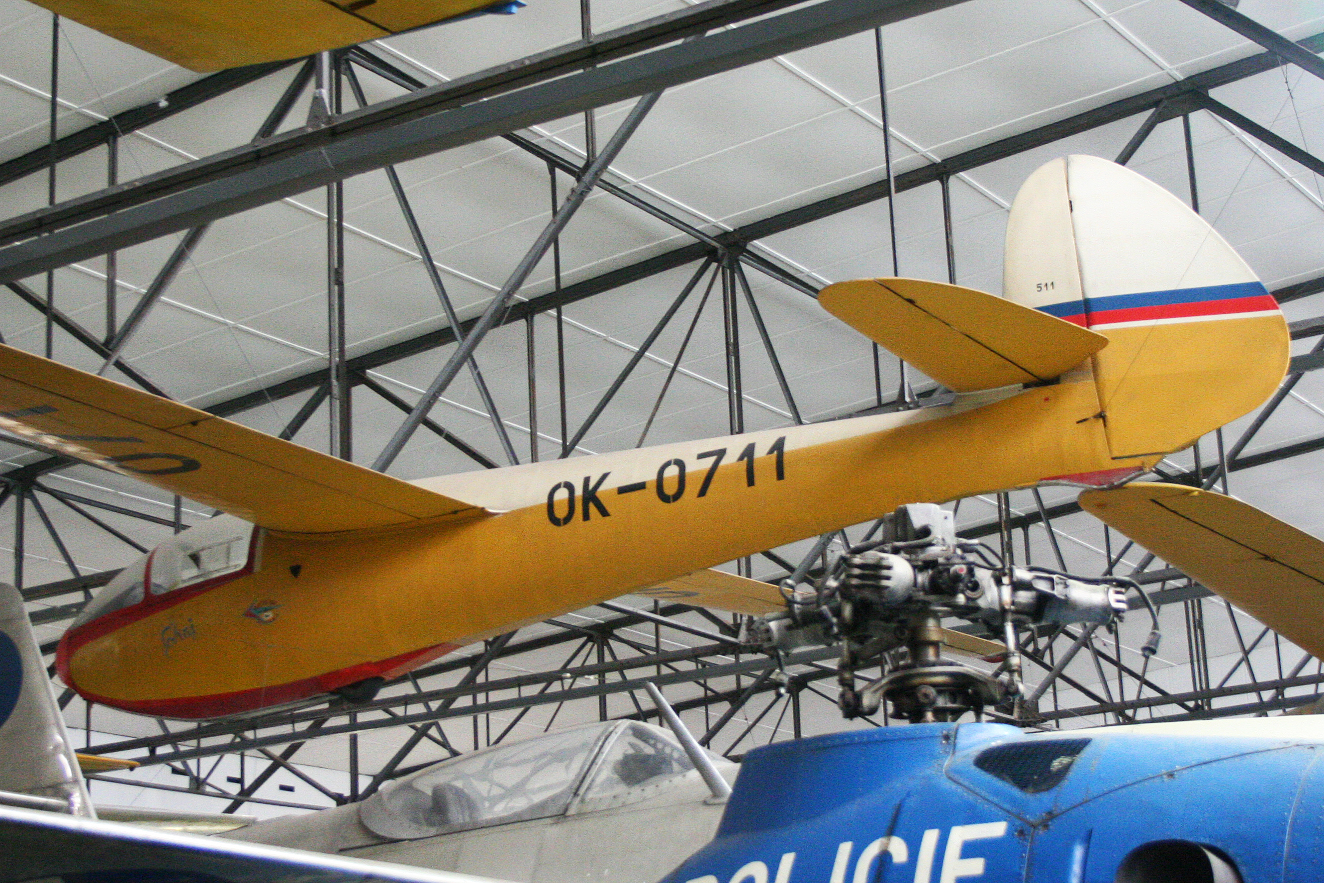 The museum has a further five VT-425s in storage. msn 0511. On display in the Post War Hangar, Kbely museum, Czech Republic. 07-10-2012